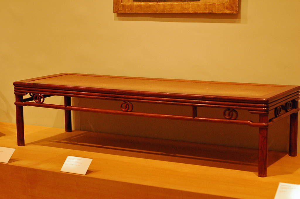 Daybed China, Ming dynasty, late 16th century Huanghuali wood and rattan Purchase, 1956 (2268.1) Wikipedia Loves Art at the Honolulu Academy of Arts This photo of item # 2268.1 at the Honolulu Academy of Arts was contributed under the team name "redsnapper" as part of the Wikipedia Loves Art project in February 2009. Honolulu Academy of Arts The original photograph on Flickr was taken by pic-a-flik54—please add a comment to the original Flickr page whenever a use has been made on Wikipedia or another project. Project galleries on Flickr: this institution, this team